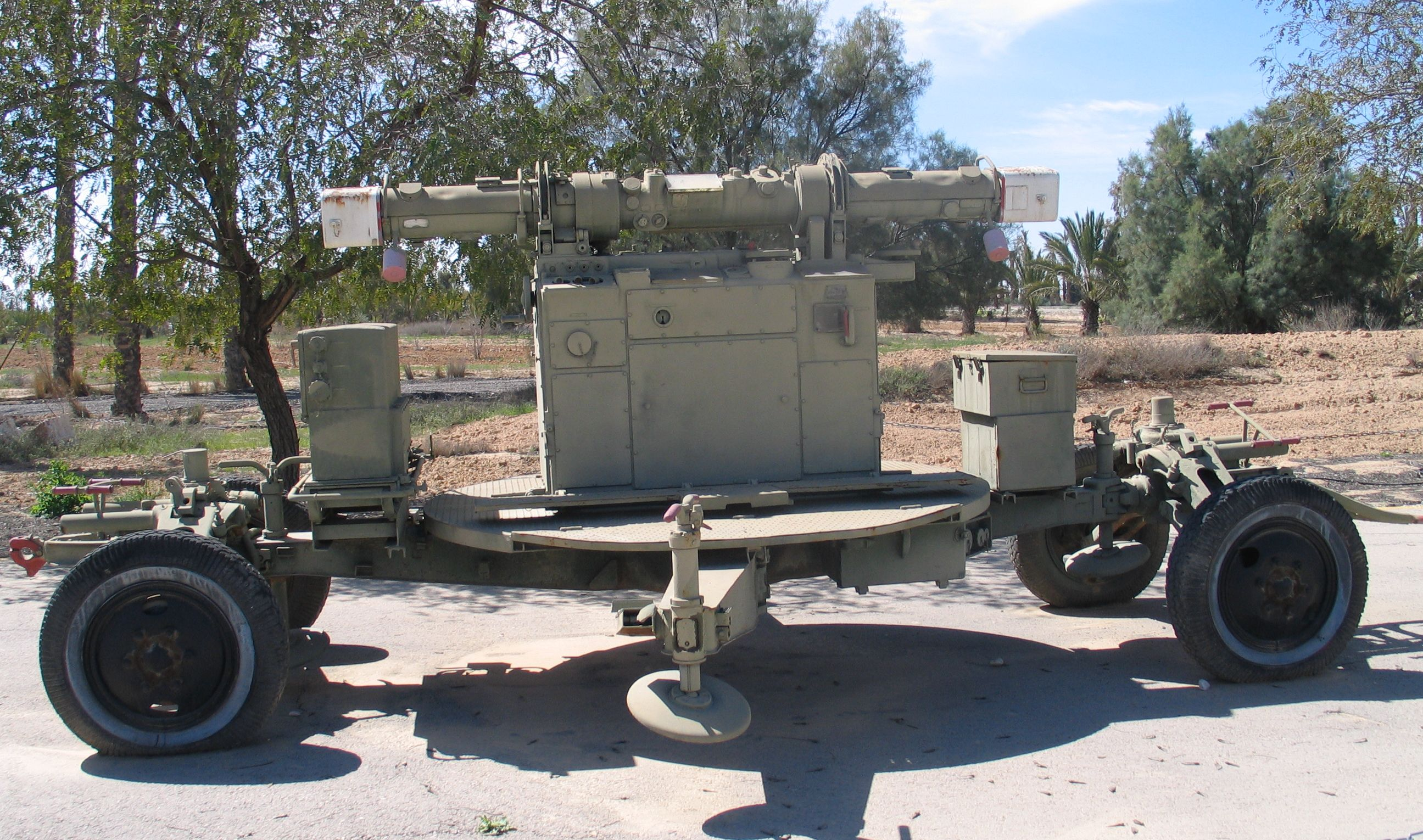 Muzeyon Heyl ha-Avir, Hatzerim, Israel.